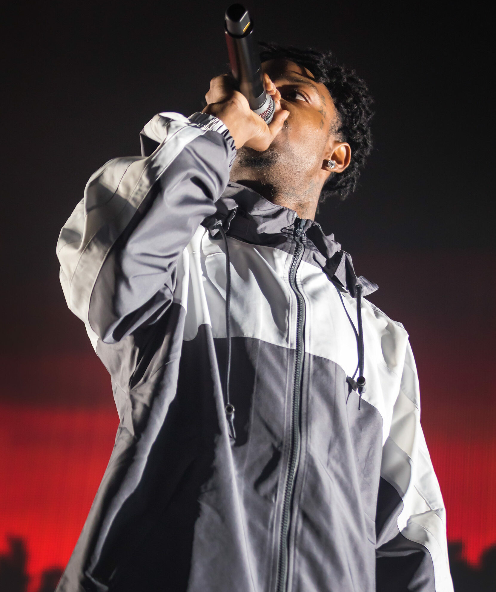 21 Savage performing at the Austin360 Amphitheater in Austin, Texas on June 16, 2018.